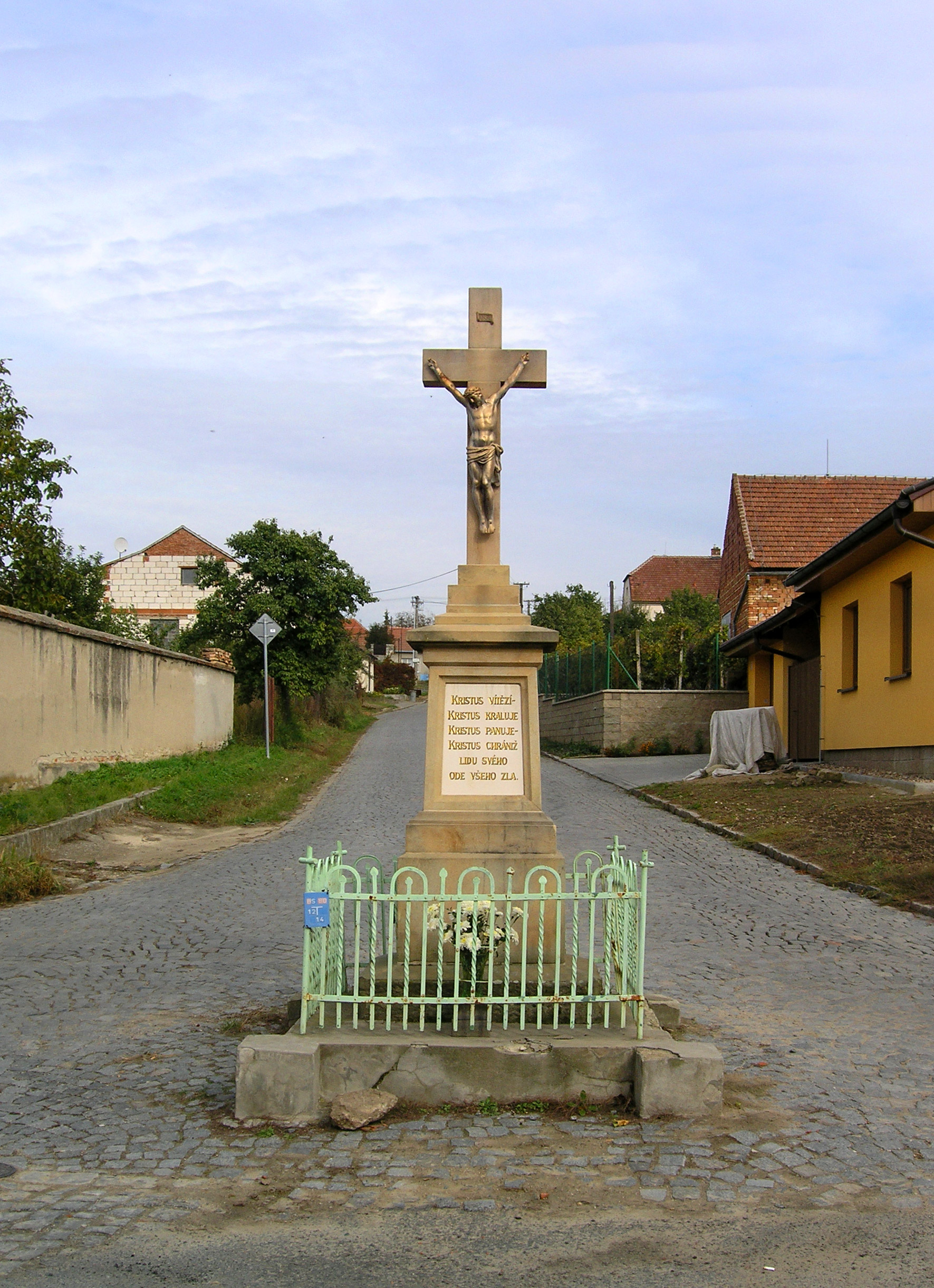 Crucifix in Kobylí village, Czech Republic